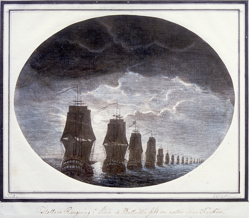 The image is part of a series illustrating a naval battle at the southern point of the island of Öland in the Baltic Sea, fought in July 1789 in the war of 1788-1790 between Sweden and Russia. Persistent URL: Read more about the photo database (in english)